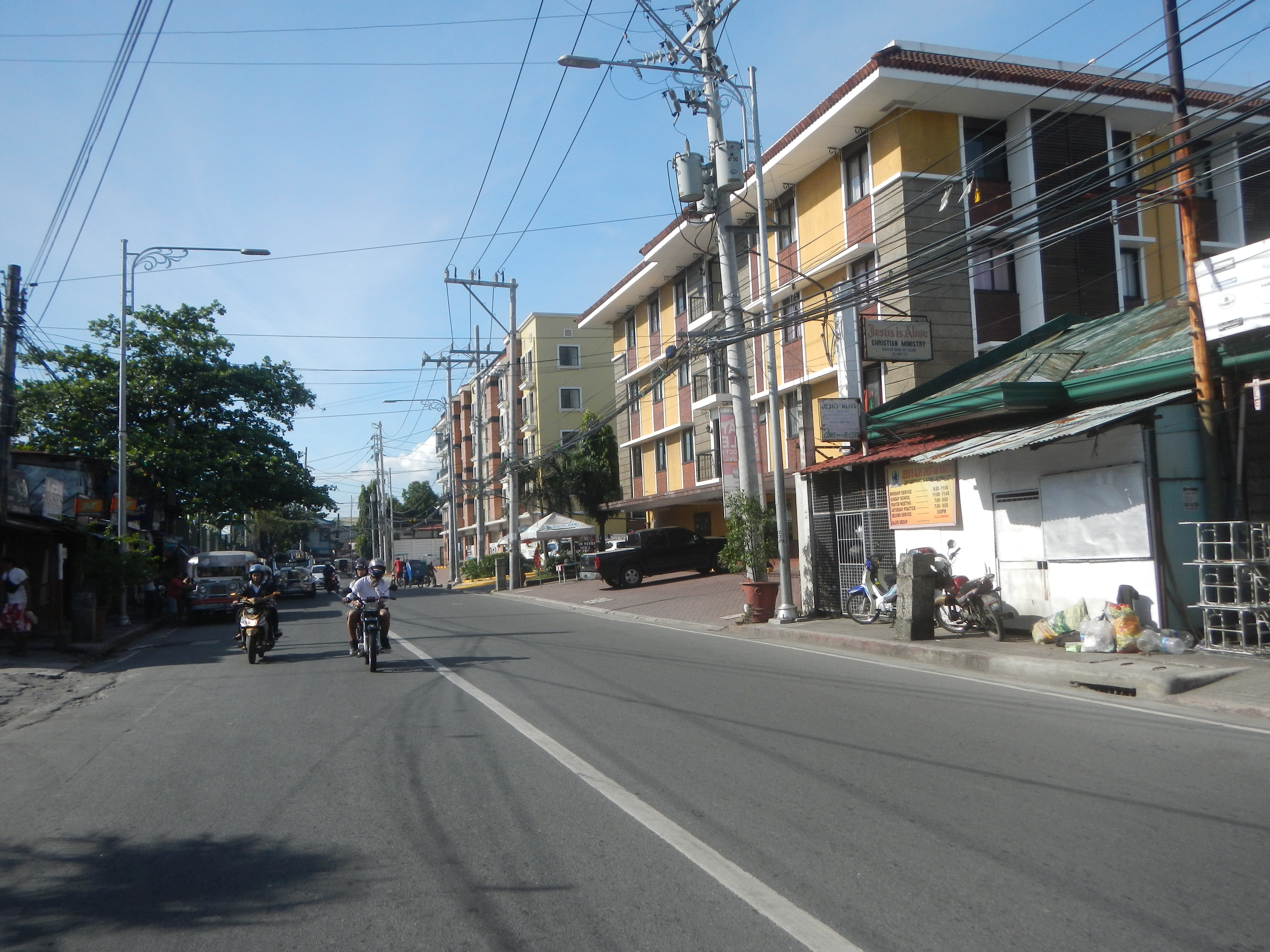 Pulanglupa Bridge - Las Piñas City River Sta. K0013+0044 Load limit 10 metric tons Plaza Rizal (Las Piñas City Historical Corridor) Bulwagan Padre Ezekiel Moreno (Las Piñas City Historical Corridor) D. Fajardo Police and Fire Station & D. Fajardo Hall and Library (Las Piñas City Historical Corridor) Barangays Barangays Daniel Fajardo (Poblacion) 14°28'50"N 120°58'53"E Pulang Lupa Uno 14°28'16"N 120°58'36"E Pulanglupa Dos 14°27'41"N 120°59'12"E from Manuyo Uno (Las Piñas) 14°28'52"N 120°59'9"E Las Piñas along Elpidio Quirino Avenue to Diego Cera Avenue to Roxas Boulevard, Radial Road 2 from Baclaran LRT station (Note: Judge Florentino Floro, the owner, to repeat, Donor Florentino Floro of all these photos hereby donate gratuitously, freely and unconditionally Judge Floro all these photos to and for Wikimedia Commons, exclusively, for public use of the public domain, and again without any condition whatsoever).